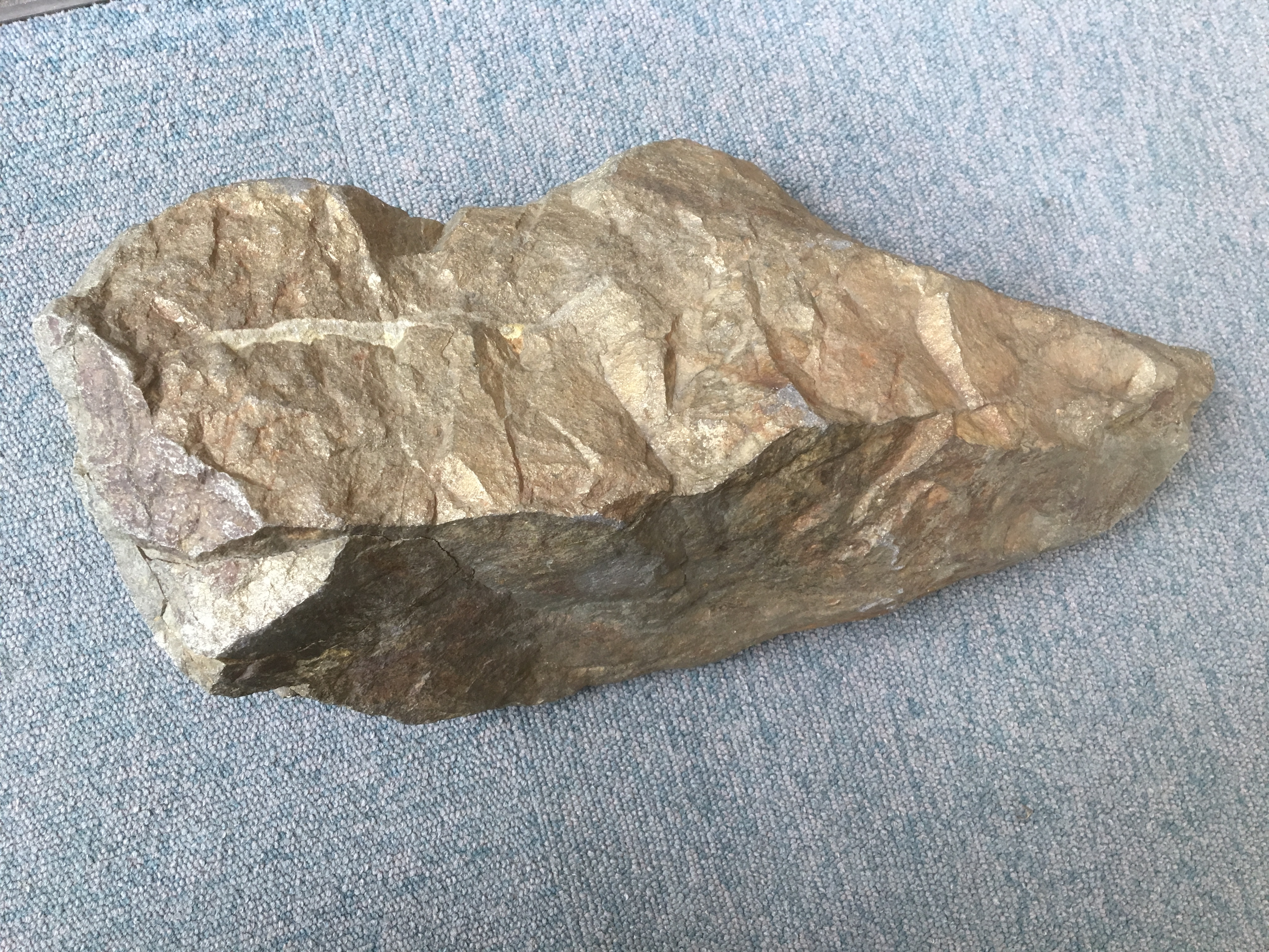 iron sulphide Yanahara-mine JAPAN fool's gold